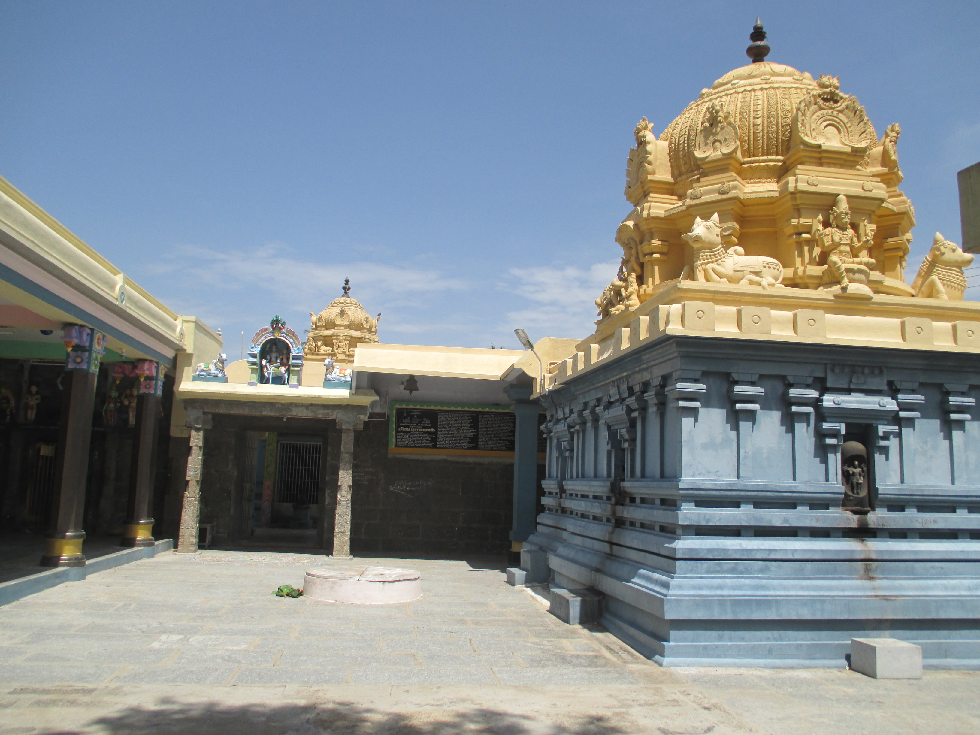 Metraleeswar Temple